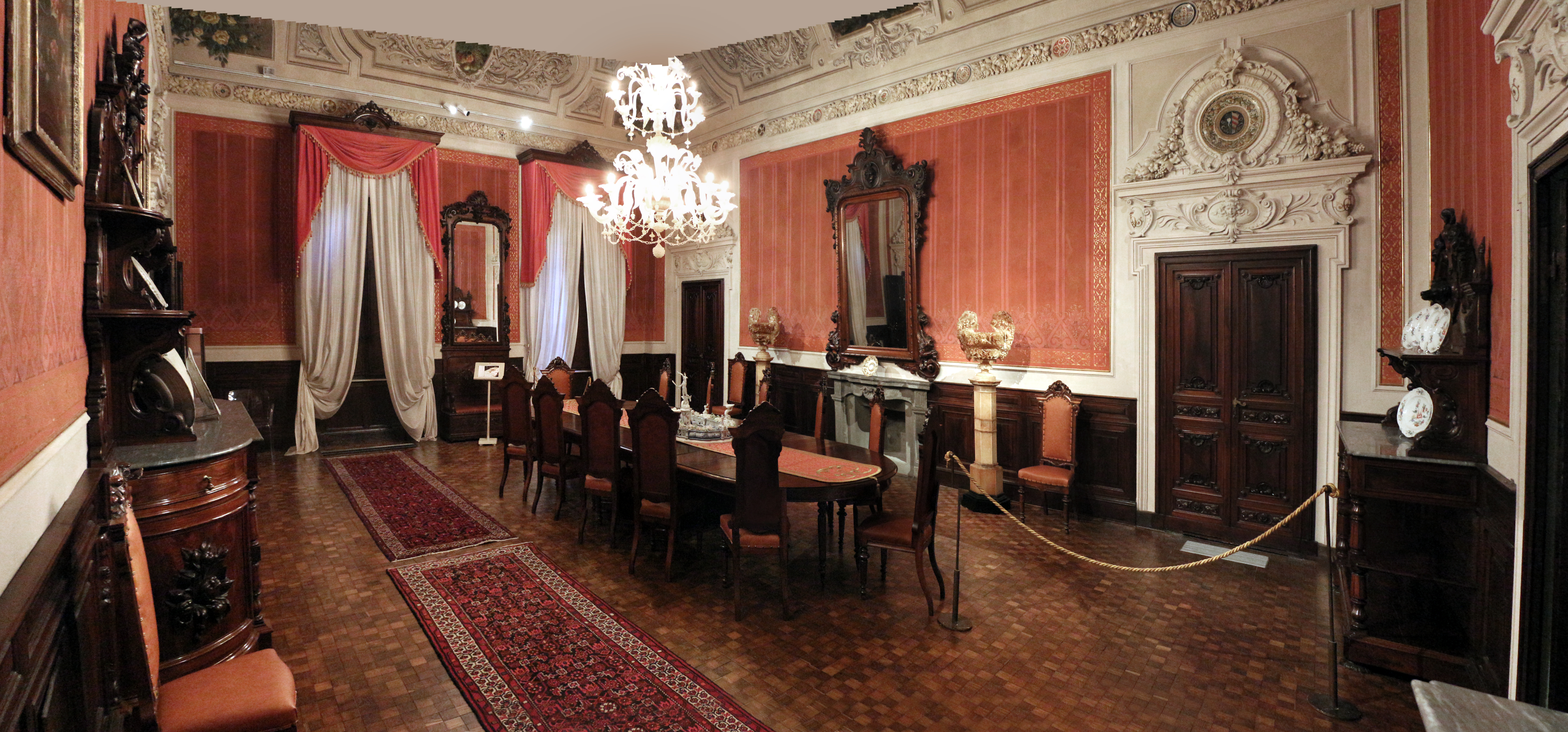 Palazzo Blu (Pisa)